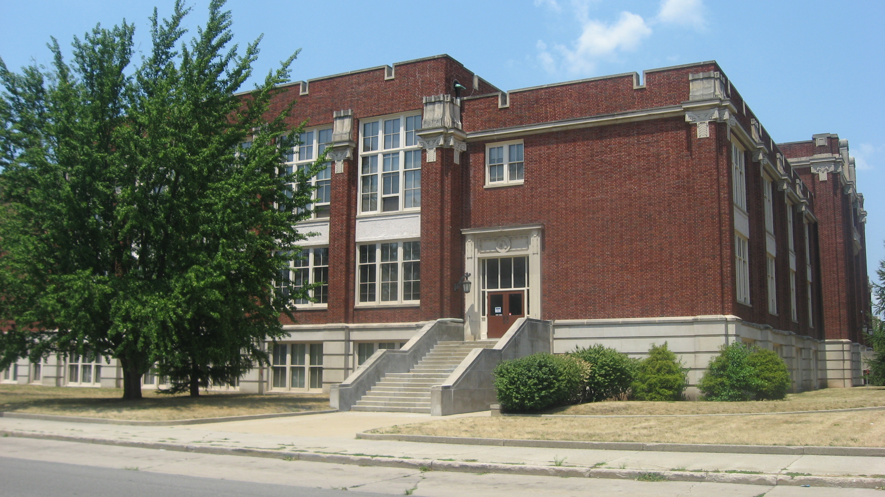 Front and eastern side of the Berteling Building, located at 115 N. St. James Court and W. Washington Street in South Bend, Indiana, United States. Built in 1911, it is listed on the National Register of Historic Places.